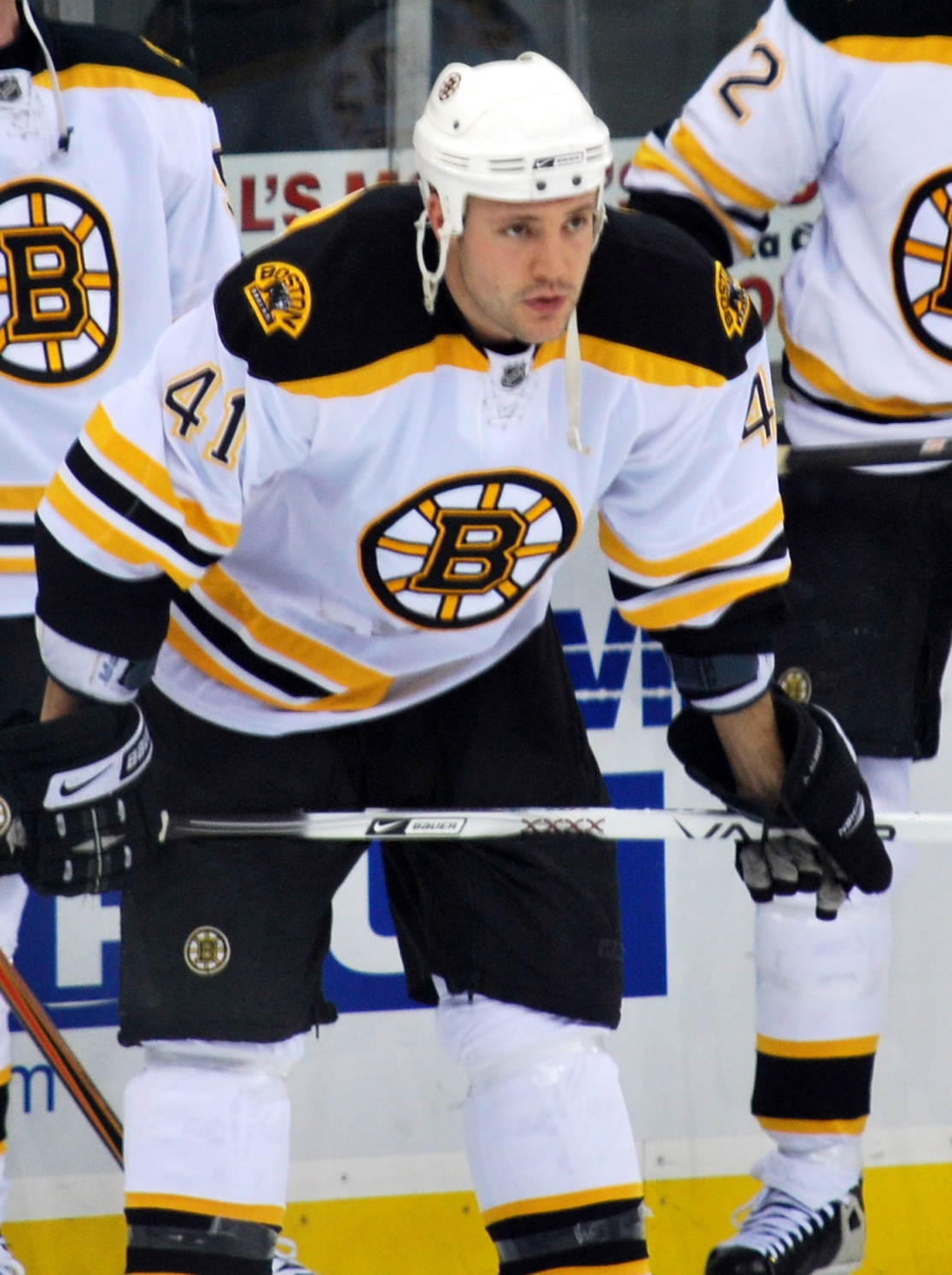 Boston Bruins defenceman Andrew Alberts during a game against the New Jersey Devils on April 2, 2008.